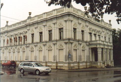 The Palace of Wiechert in Starogard Gdański in Poland